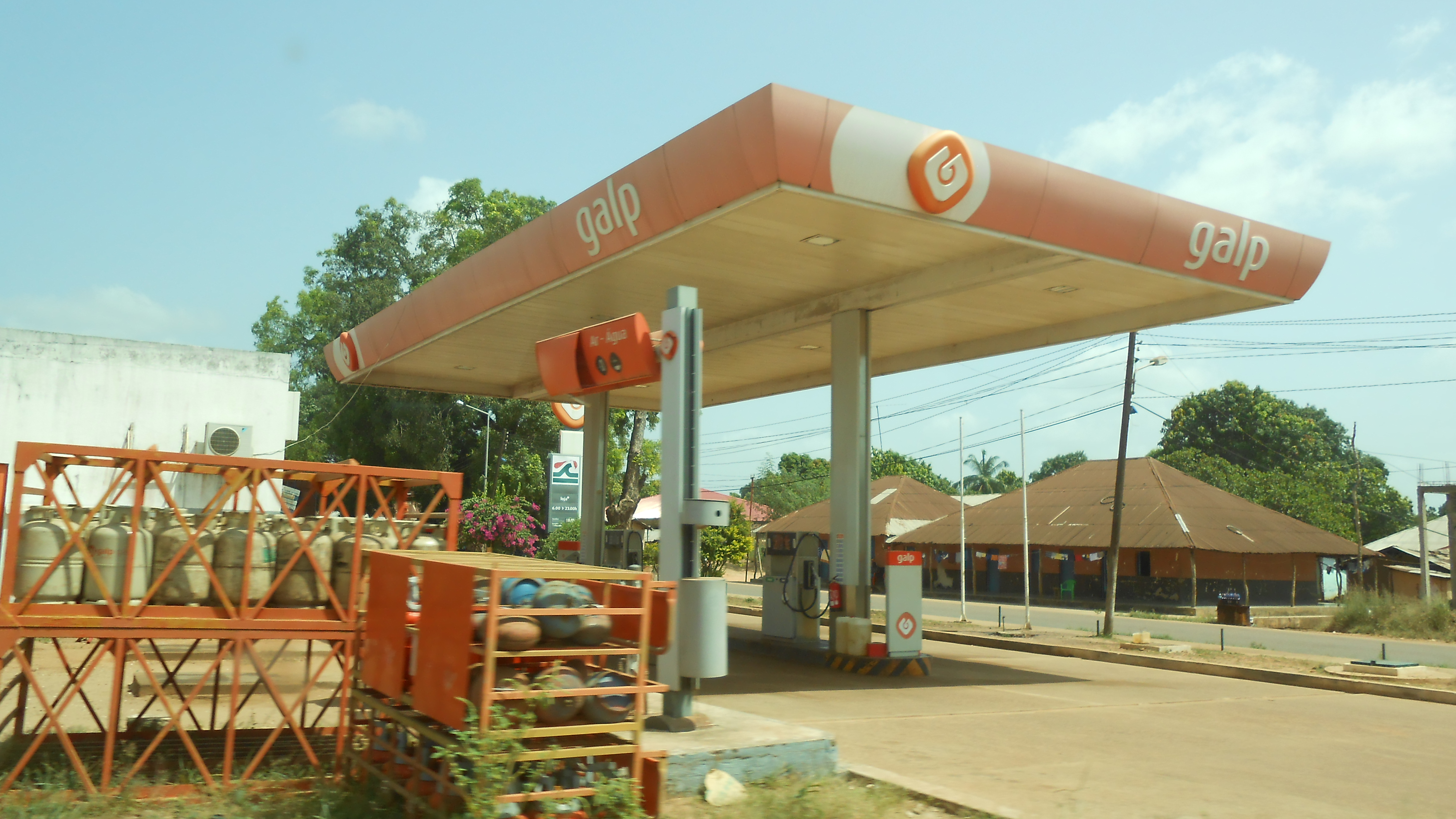 Petrol station of the portuguese GALP company outside of the Canchungo town centre.